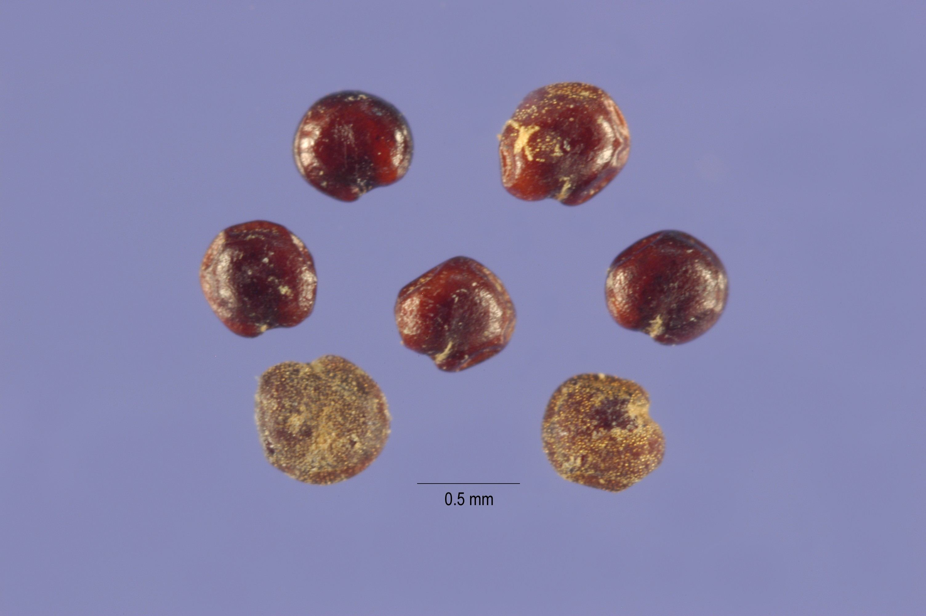 Dysphania botrys (L.) Mosyakin & Clemants (Syn. Chenopodium botrys L.) seeds